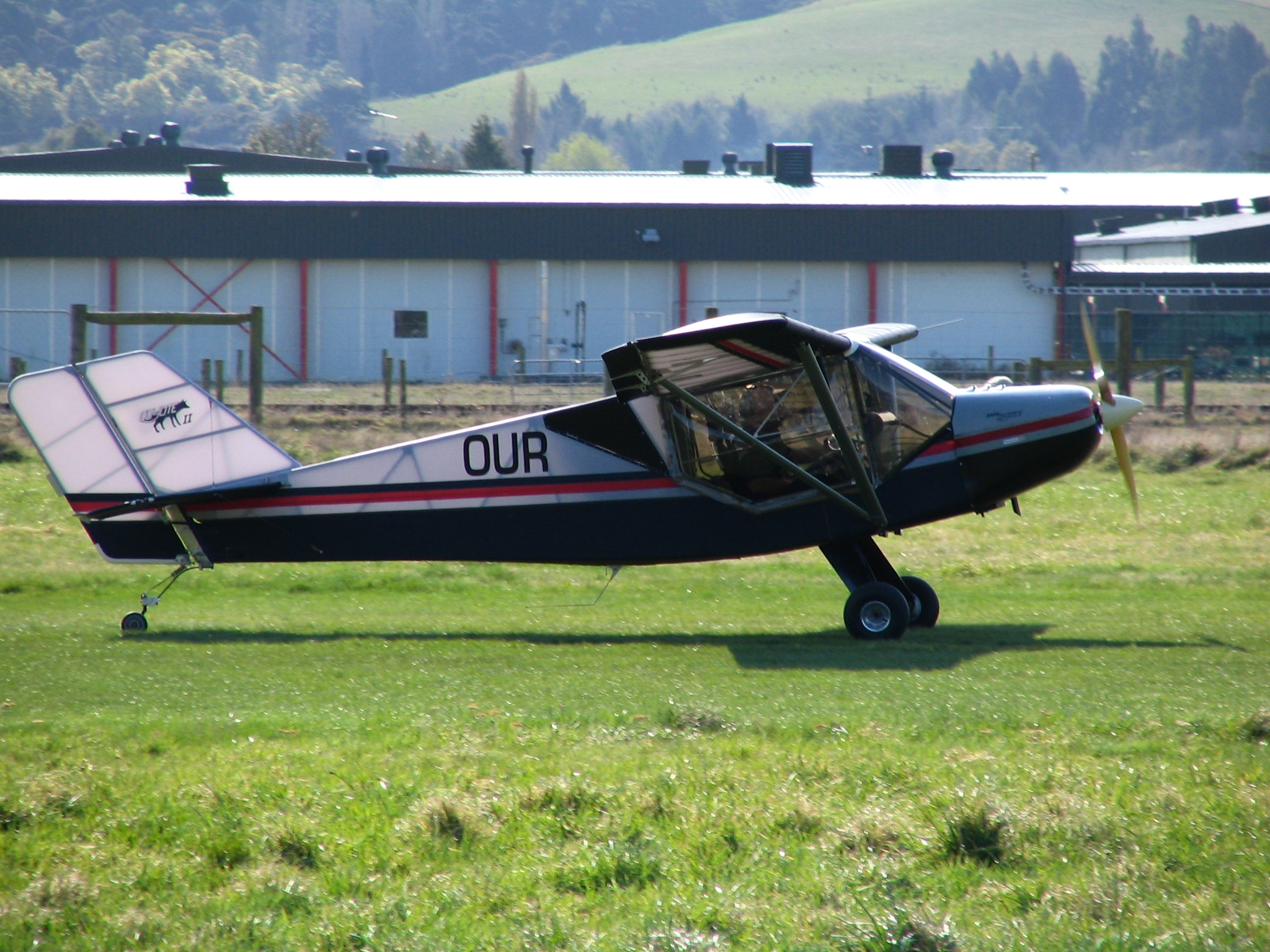 Rans S-6ES Coyote II ZK-OUR at Taieri Aerodrome, Dunedin, New Zealand.